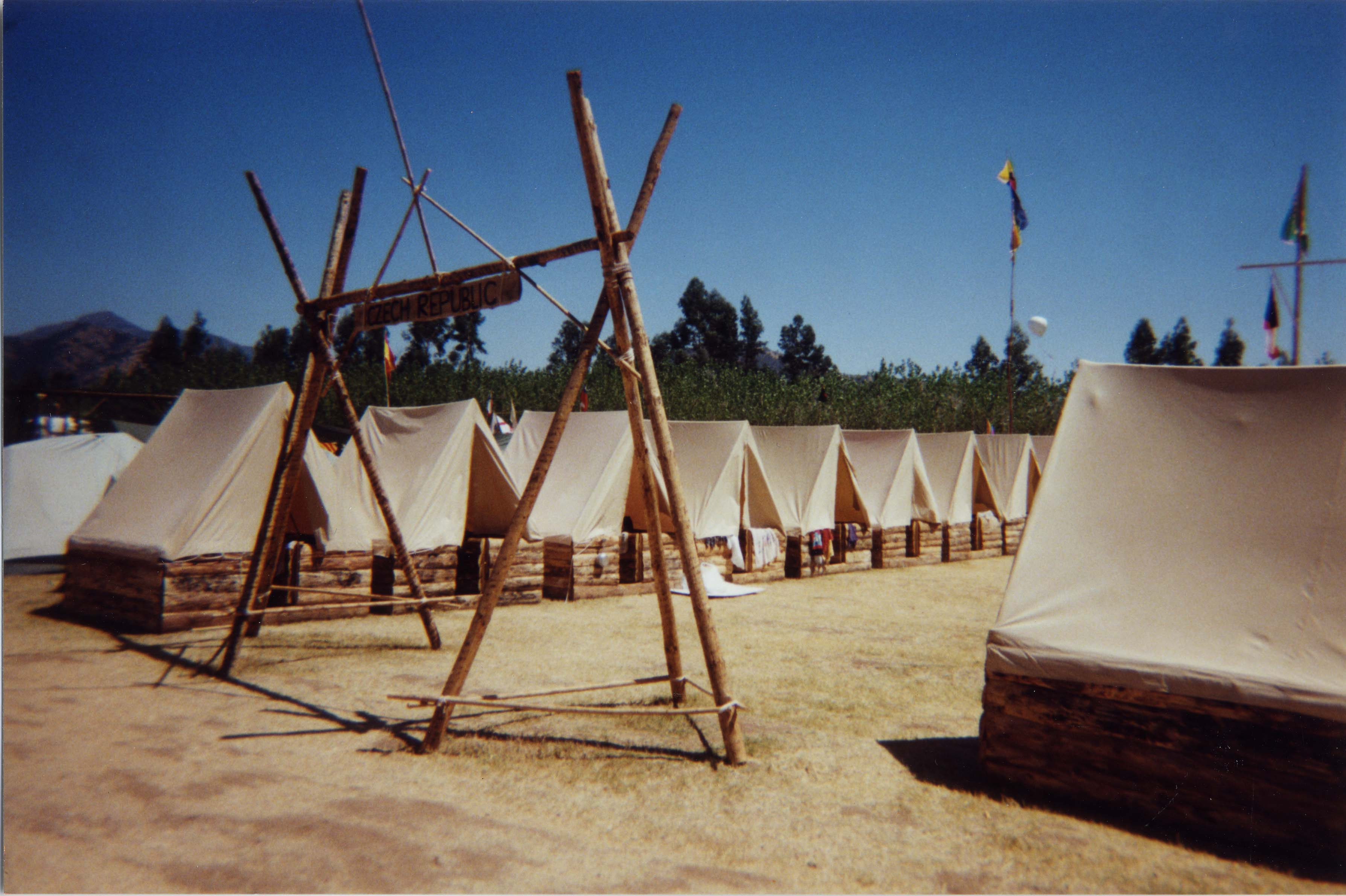 Czech camp during World Scout Jamboree 1999